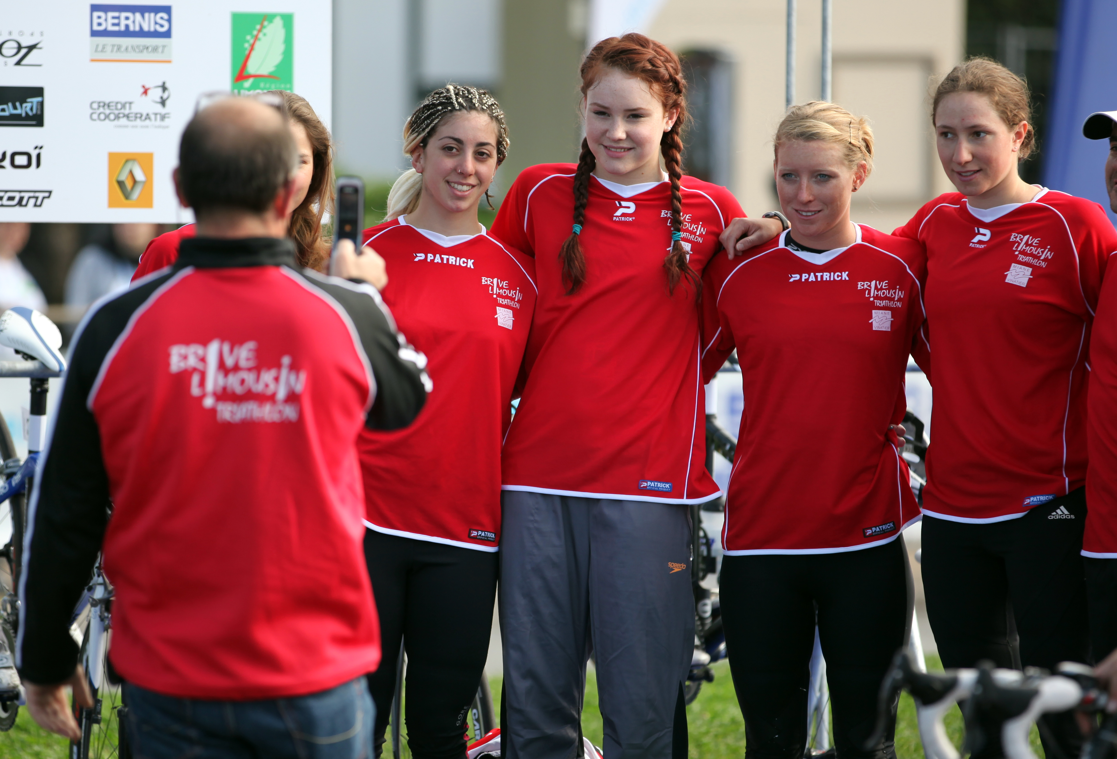 Alessia Orla (fourth from right) at the Grand Prix (i.e. Club Championship Series) triathlon in Nice, 2011, representing the club Brive Limousin.